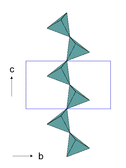 Zweier-Single chain of Pyroxens running parallel to the c-axis